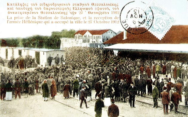 Occupation of Thessaliniki Railway Station by the Greek Army in 1912. Franked with a French Levant 5 c. stamp, cancelled on 1913-11-09.